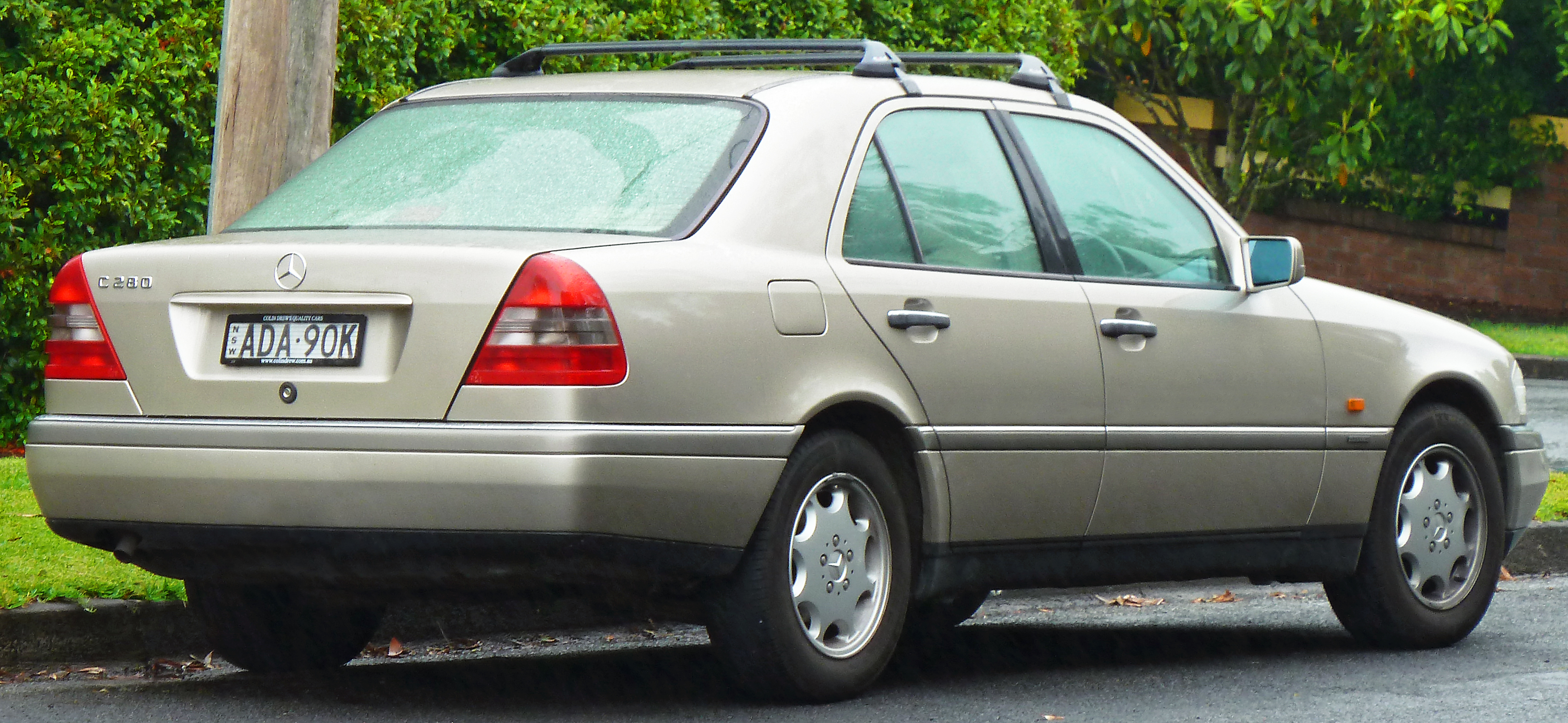 1995 Mercedes-Benz C 280 (W 202) Elegance sedan. Photographed in Roseville, New South Wales, Australia.